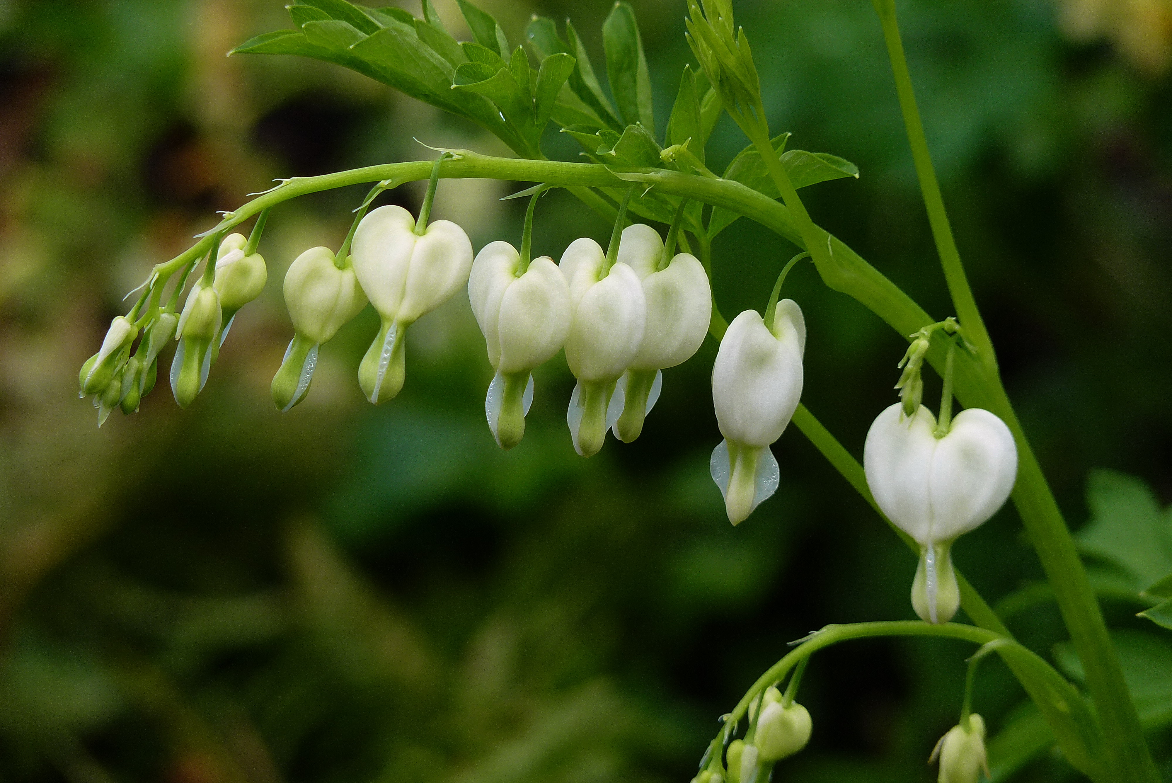 White Old-fashioned Bleeding-heart